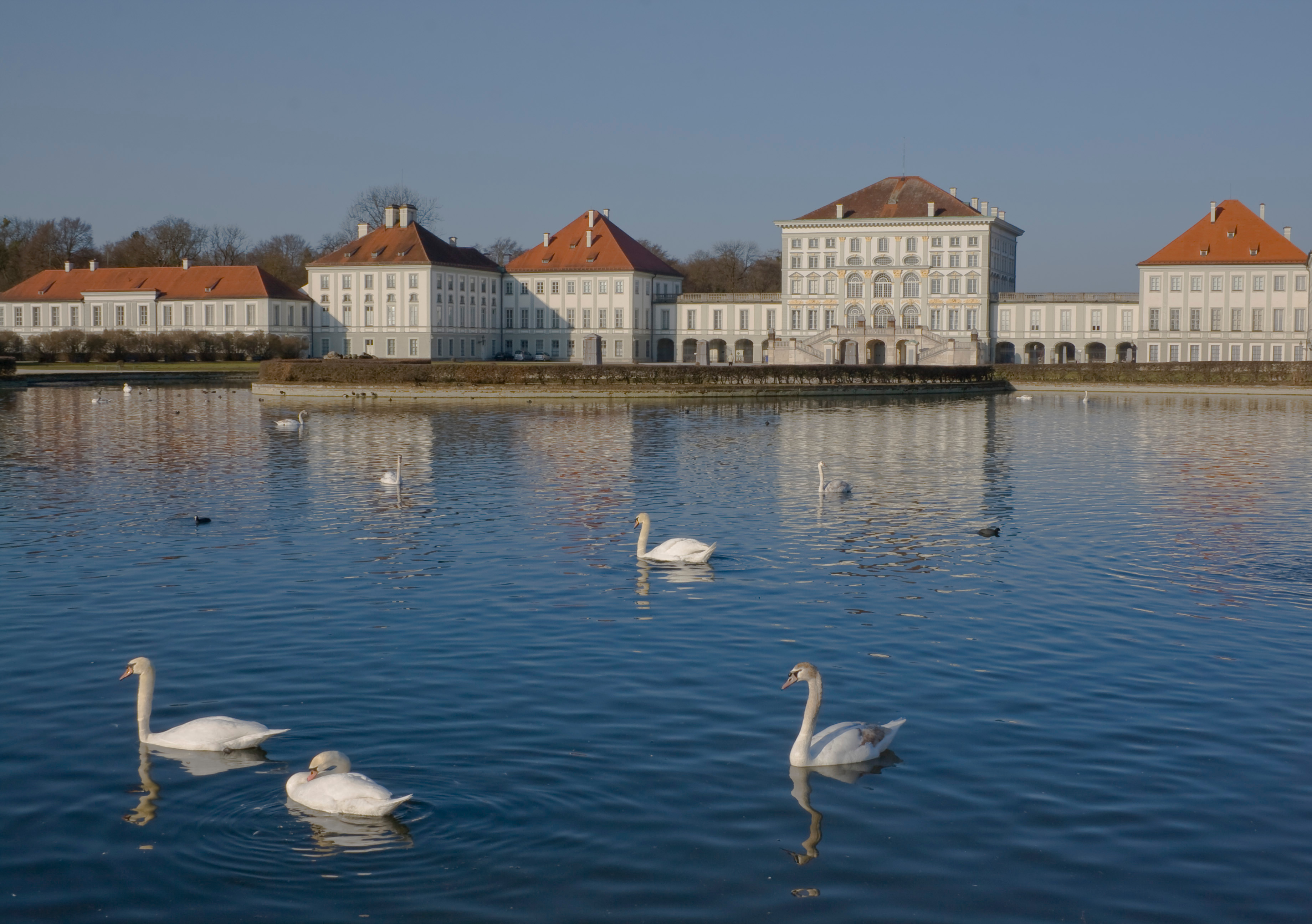 Exterior of the Nymphenburg Palace, Munich, Germany